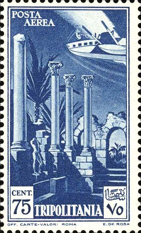 Express stamp 1931: Ruins of Leptis Magna, libya.